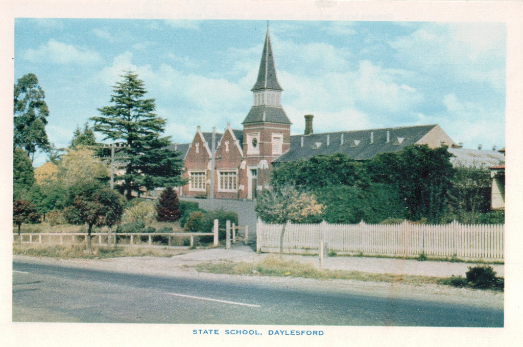 Daylesford - state school [constructed 1875]